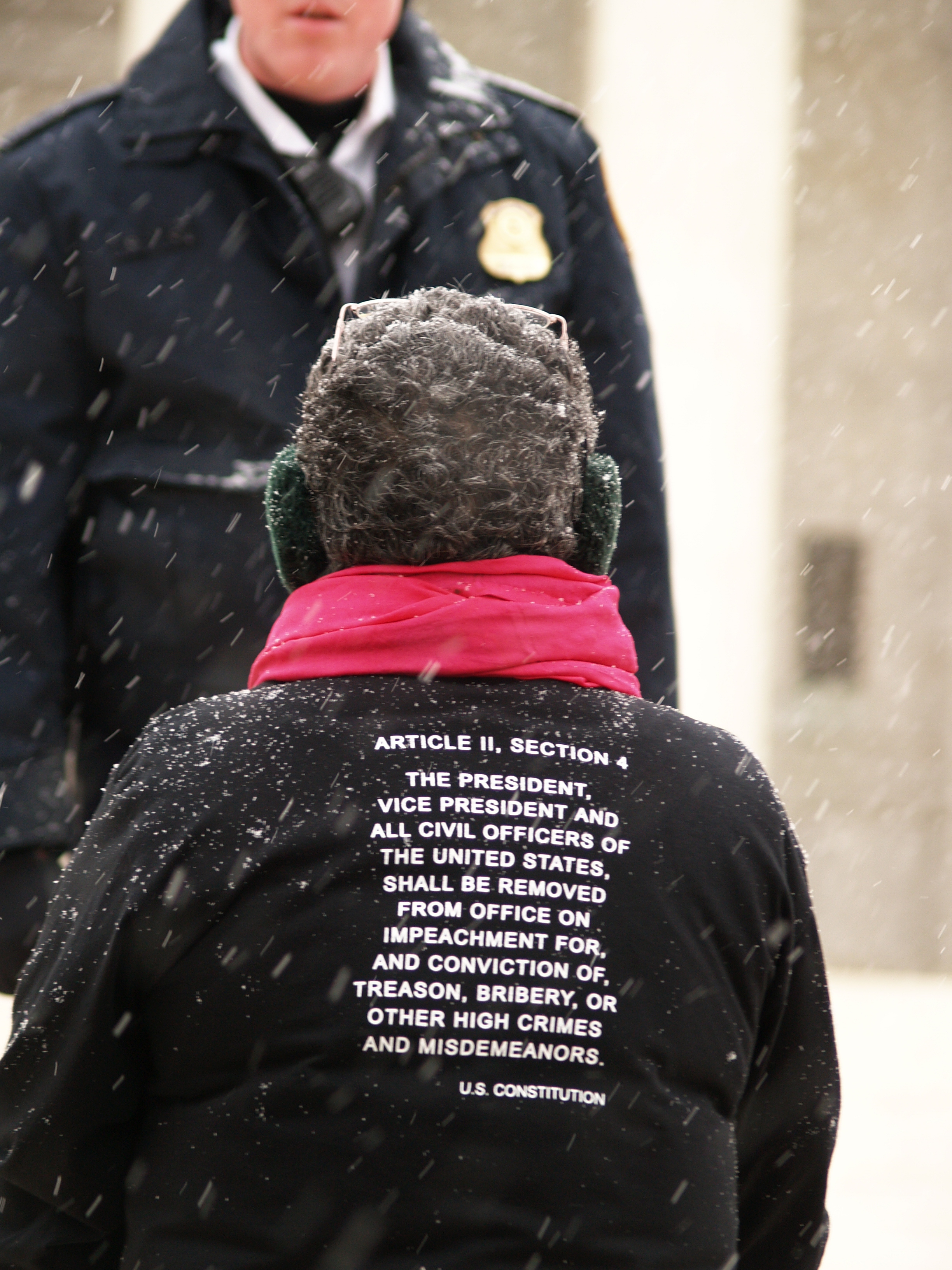 Article II, Section 4 The President, Vice President and all civil officers of the United States, shall be removed from office on impeachment for, and conviction of, treason, bribery, or other high crimes and misdemeanors. U.S. Constitution.